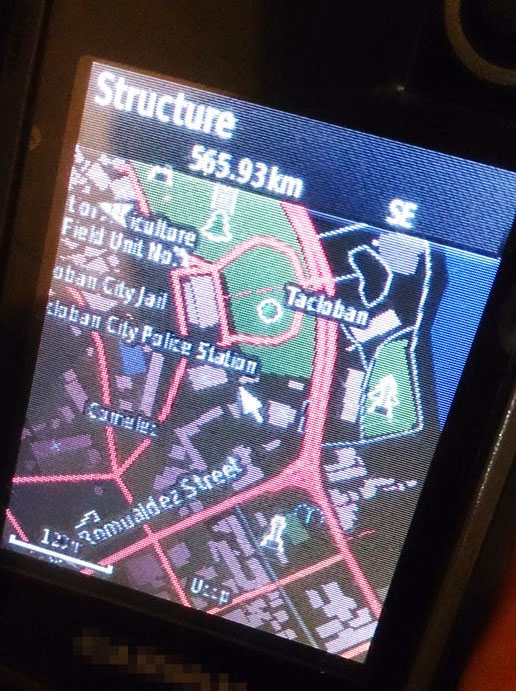 A handheld GPS device showing Tacloban map based from Openstreetmap Philippines data and compiled by Schadow1 Expeditions.